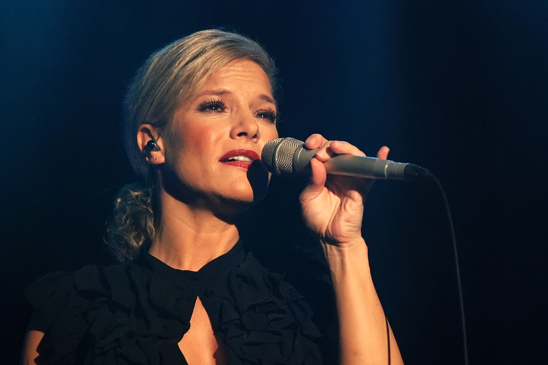 Ina Mueller